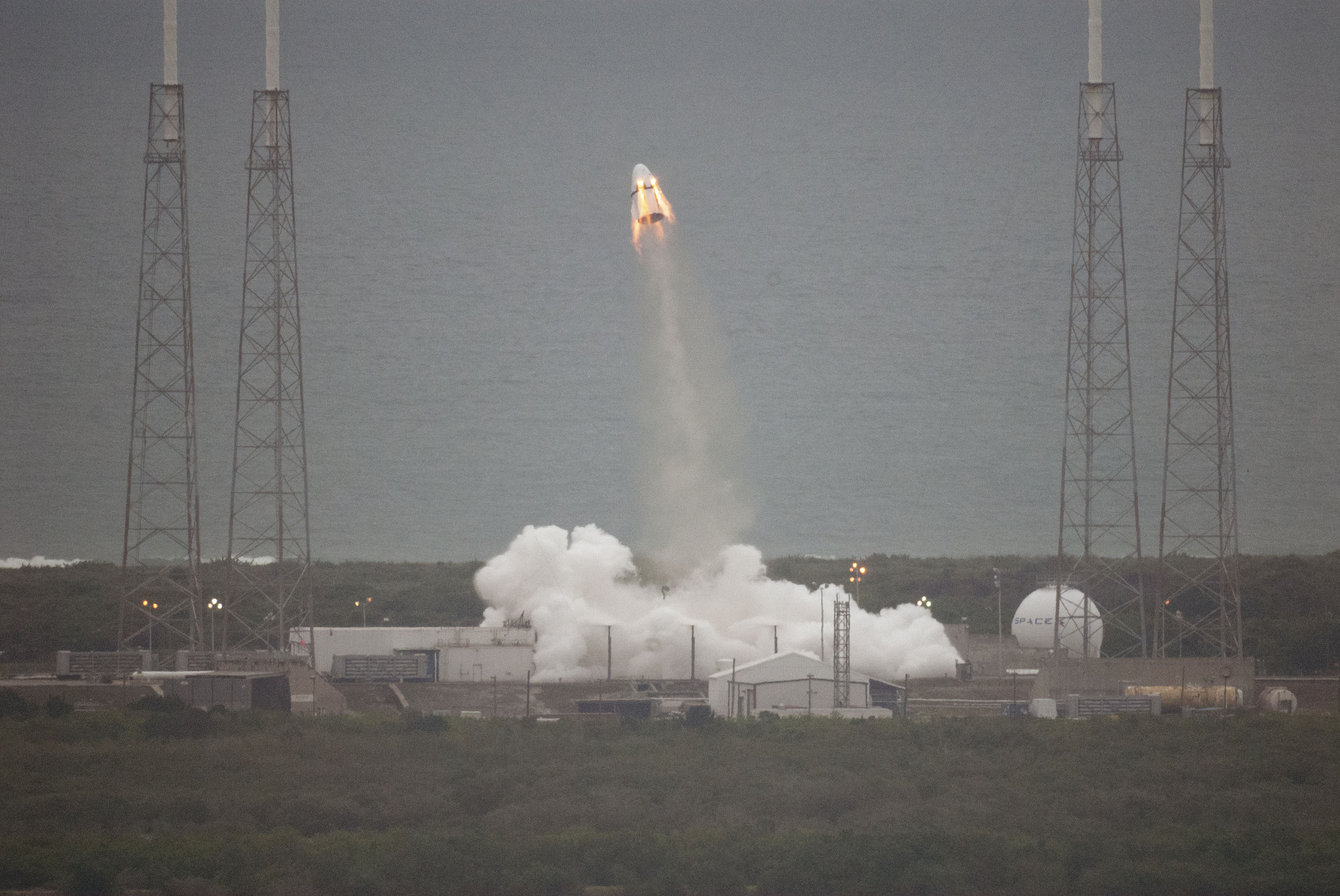 Eight SuperDraco engines boost a SpaceX Crew Dragon spacecraft away from Space Launch Complex 40 at Cape Canaveral Air Force Station in an emergency pad abort simulation. Each of the eight SuperDraco engine generates 15,000 pounds of thrust and burns about six seconds. The test began at 9 a.m. After the engines shut down, the Dragon spacecraft's trunk, with passive fins for stability, will separate when it reaches peak altitude.